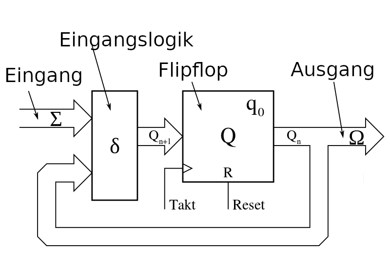 Drawing of a medwedew automation